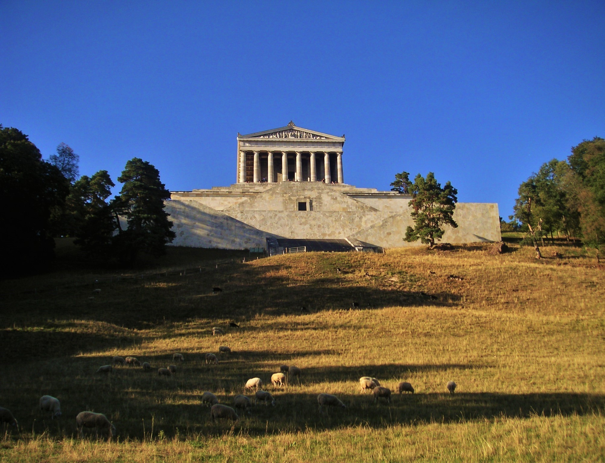 View of Walhalla hall, commemorating German luminariesThis is a photograph of an architectural monument.